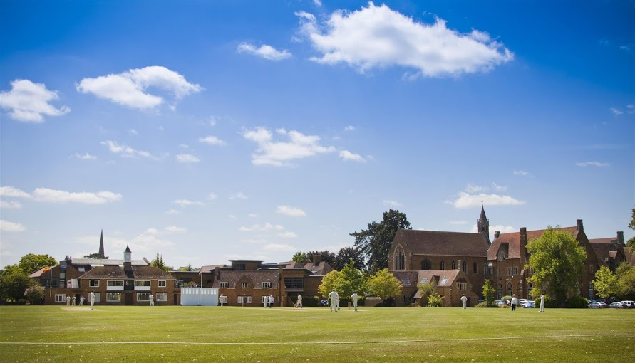 A photograph of the 2010 cricket match between the Old Bloxhamists and the MCC at Bloxham School.